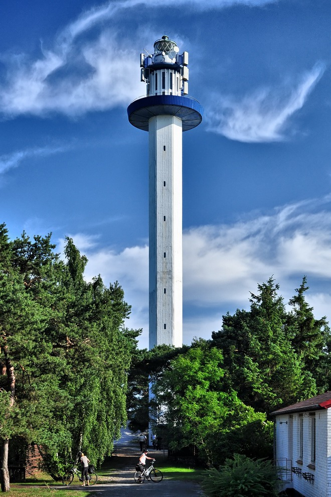 Dueodde Lighthouse on the island of Bornholm, Denmark